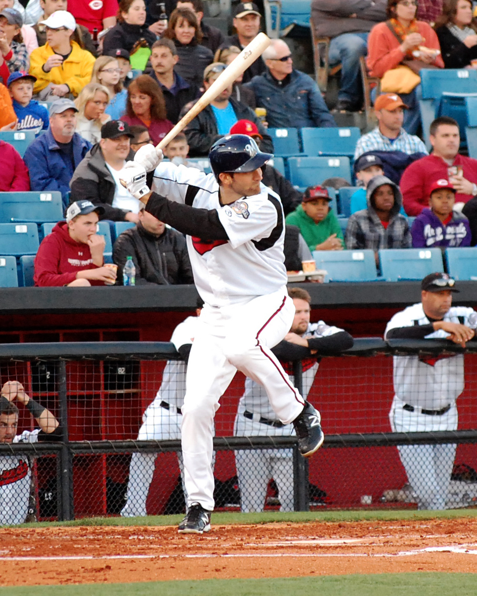 Jeff Bianchi, a shortstop for the minor league Nashville Sounds, begins to swing his bat in a game at Herschel Greer Stadium on April 20, 2013